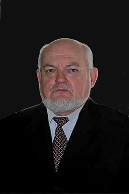 Domokos Bölöni Hungarian writer in Romania